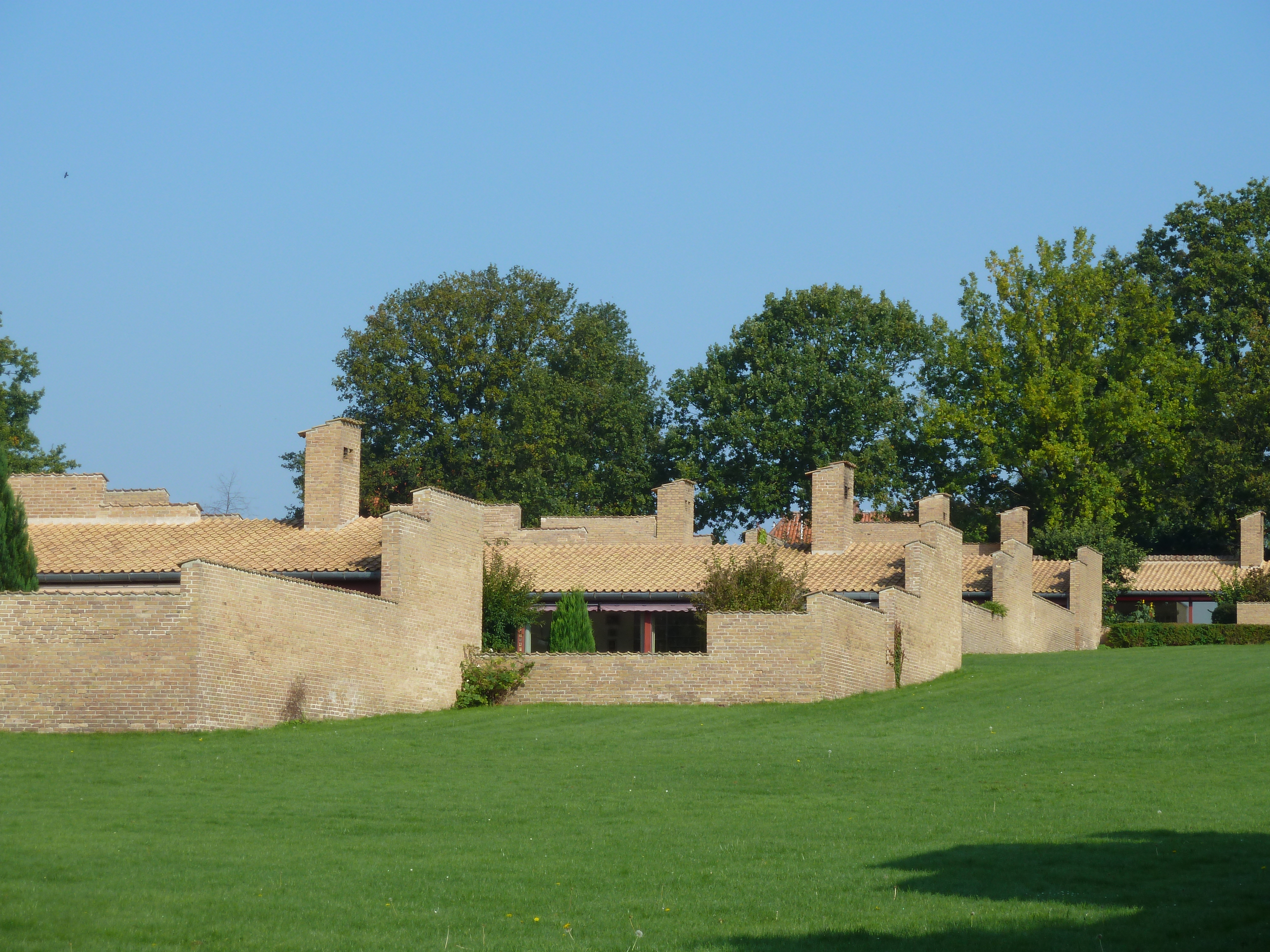 Jørn Urzon's Fredensborg Houses (Fredensborghusene) in Fredensborg, Denmark